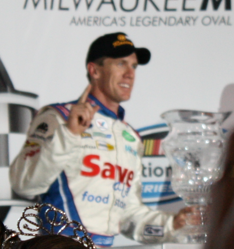 Carl Edwards in Victory Circle after winning the 2009 race at the Milwaukee Mile.